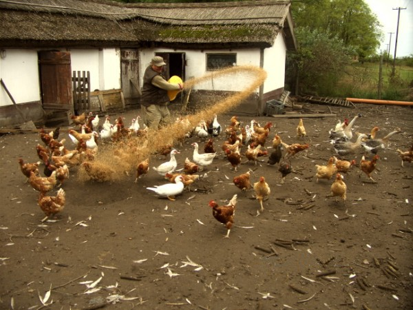 Chicken feed, Rendek biofarm, Hungary, Kerekegyháza